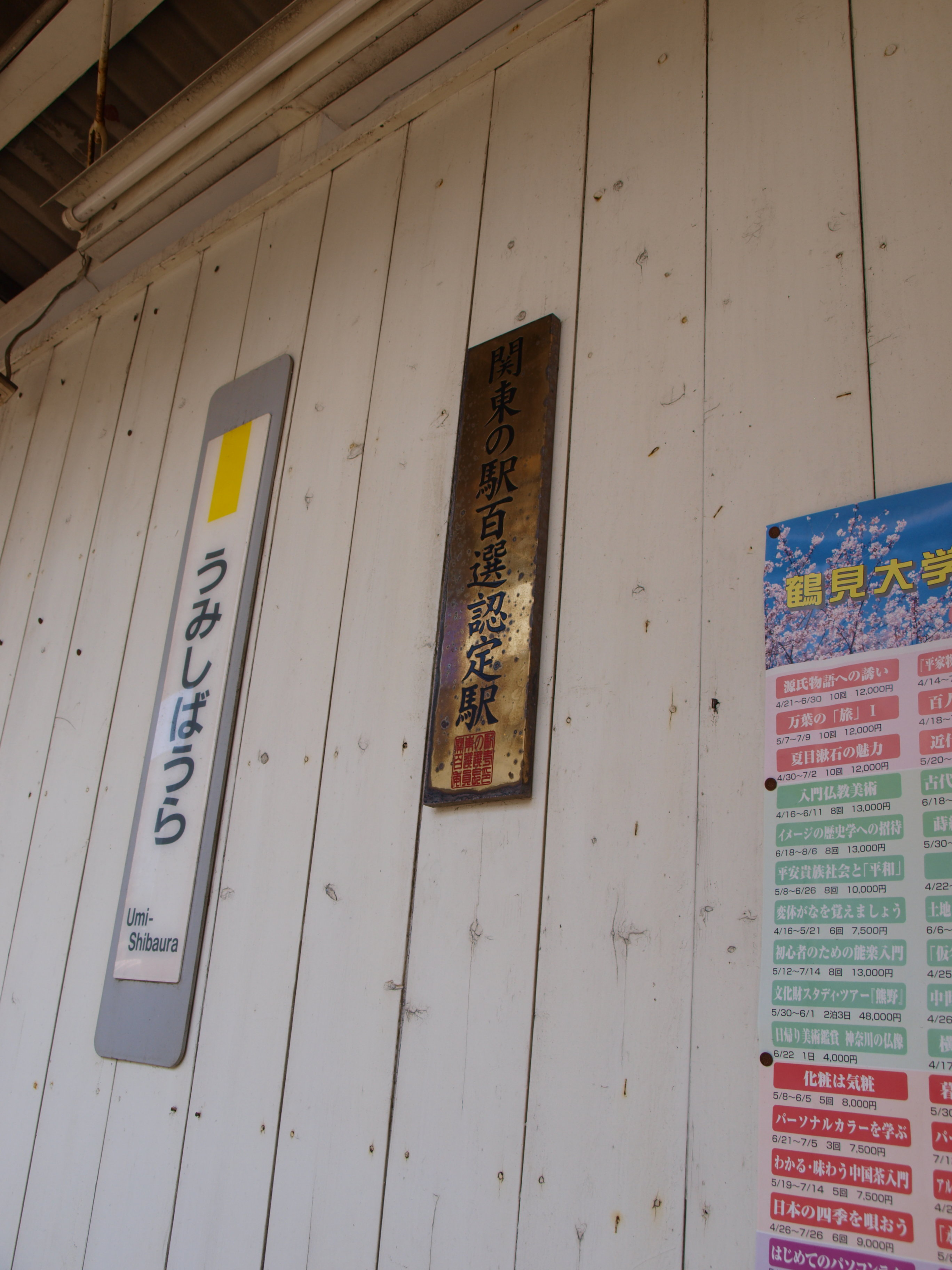 The Nameplate for Awarding Umi-Shibaura Station one of the 100 characteristic railway stations in Kanto Area.